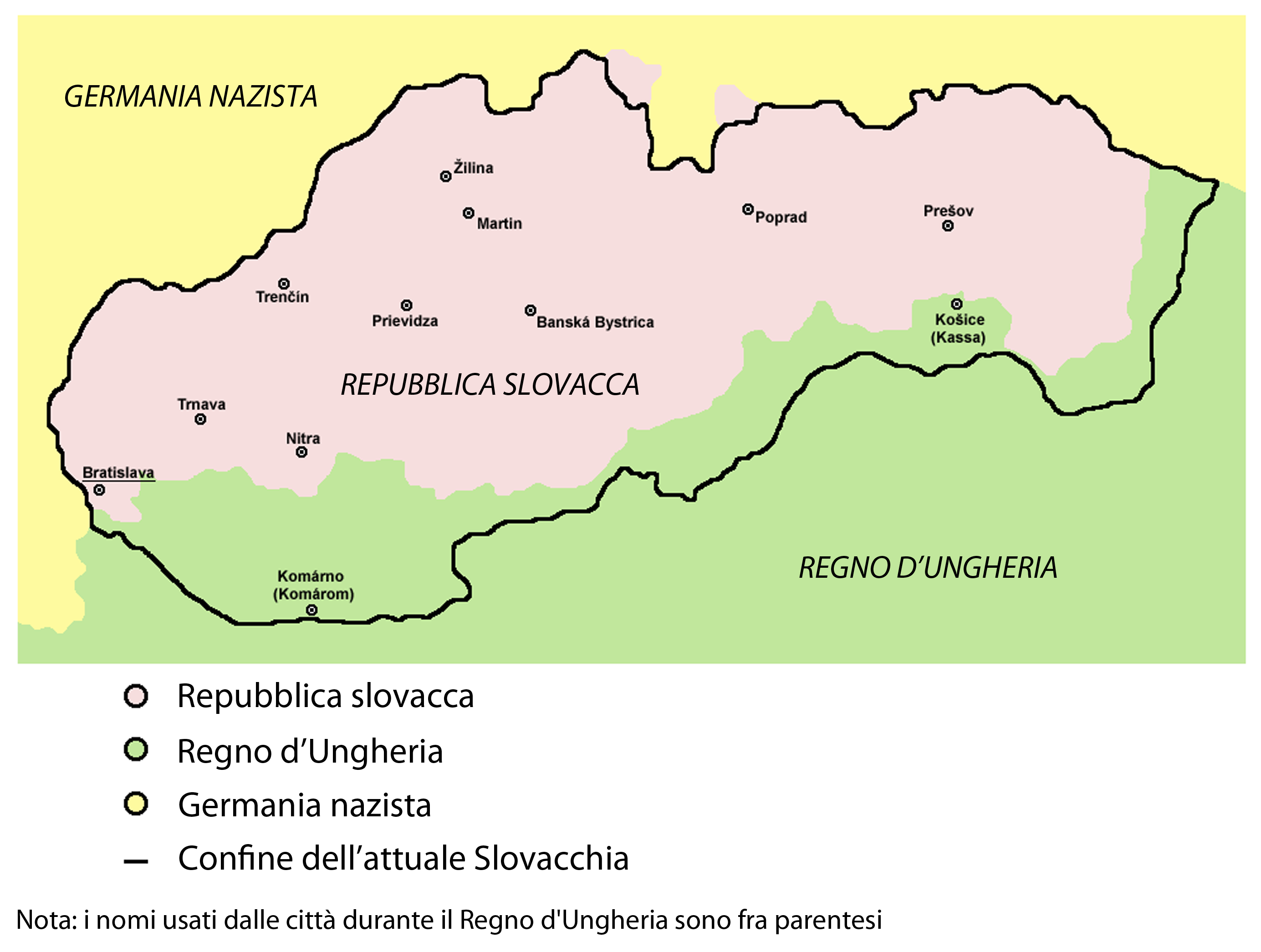 historic map of Slovak Republic (1939-1945).